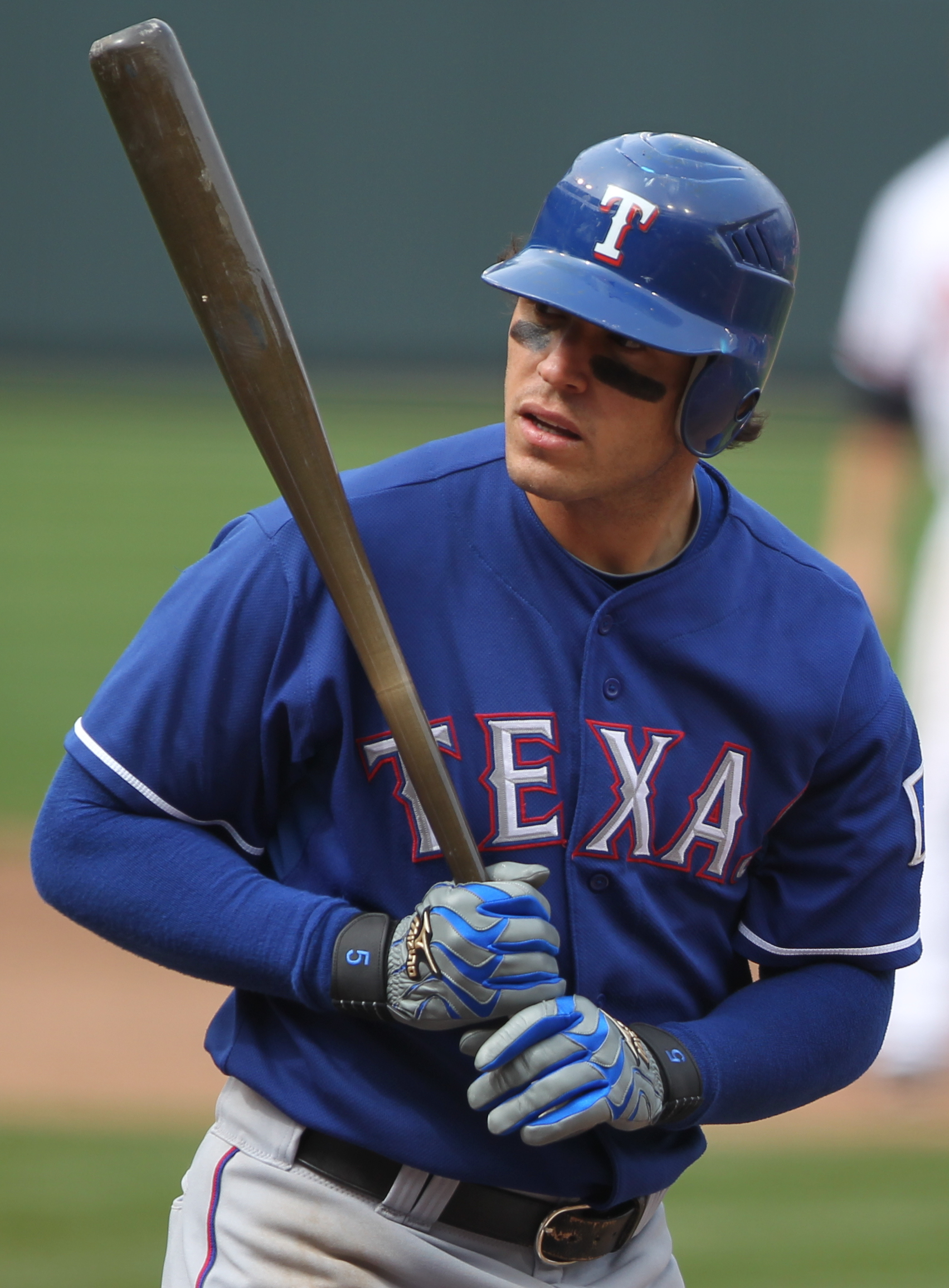 Ian Kinsler, Baltimore Orioles v/s Texas Rangers April 10, 2011